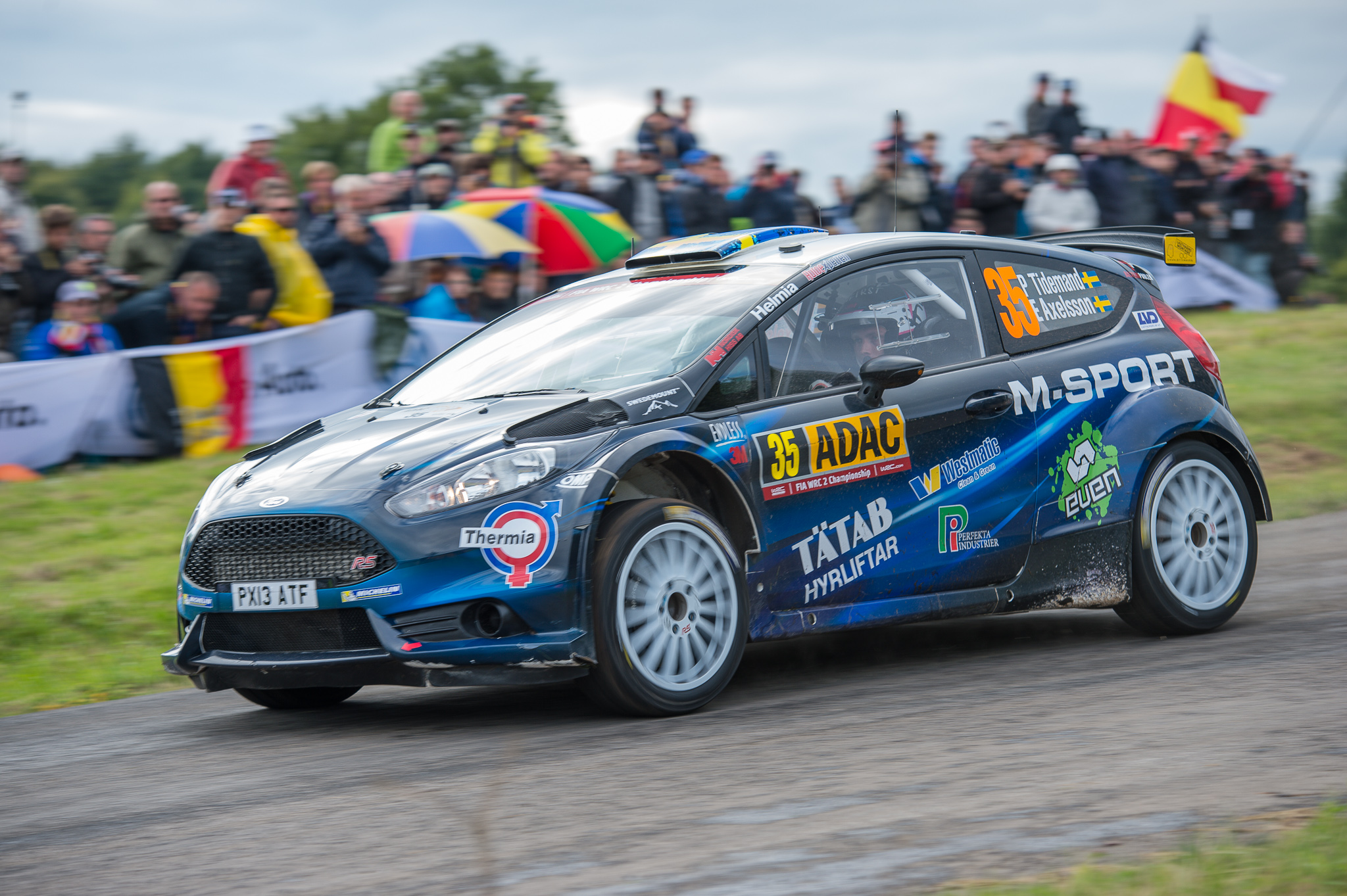 ADAC Rallye Deutschland 2014,Emil Axelsson,FIA,FIA World Rally Championship,Ford Fiesta R5,Motorsport,Panzerplatte,Pontus Tidemand,Rally,Rallye,SS14,WP14,WRC 2